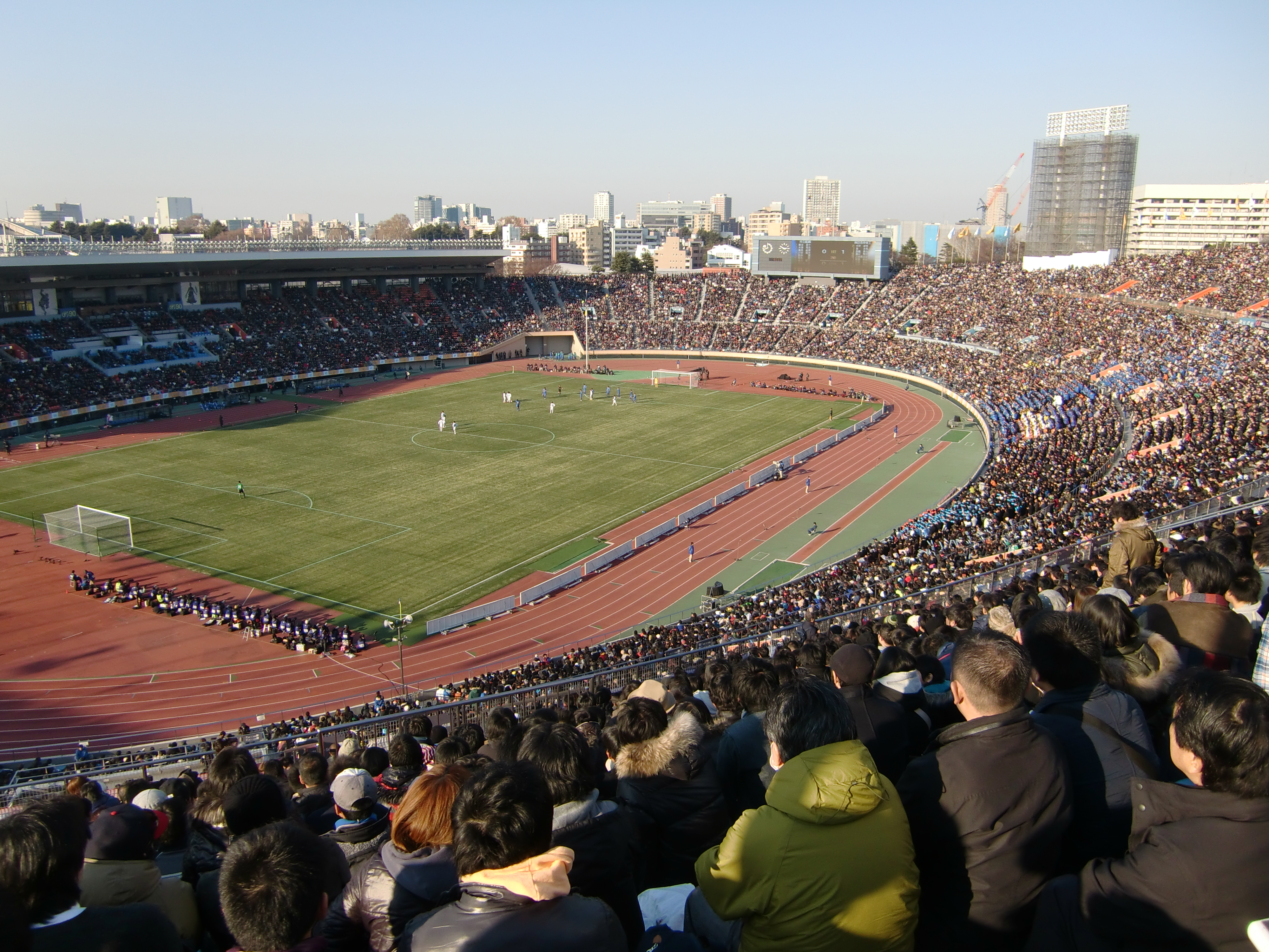 kokuritshuKasumigaoka National Stadium